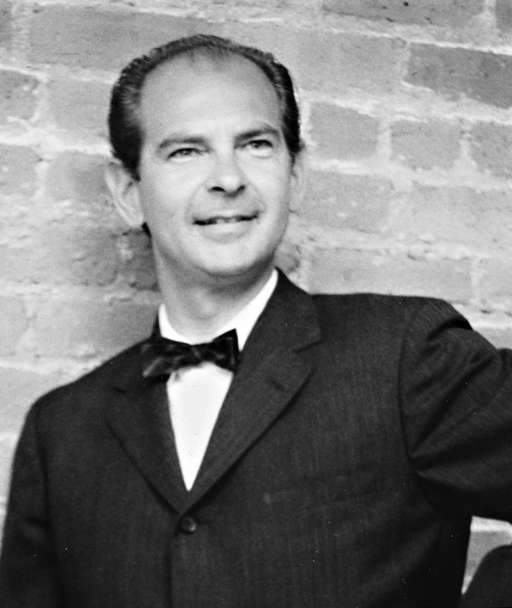 Portrait of Mel Smilow in New York. p Other information This photo of Mel Smilow was provided to me by the Smilow family. I am working with the Smilow family to create this page